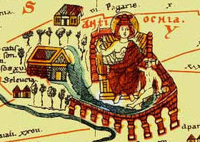 Part of Antiochia from Tabula Peutingeriana, 1-4th century CE. Facsimile edition by Conradi Millieri, 1887/1888.